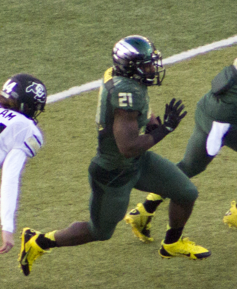 Royce Freeman in 2014